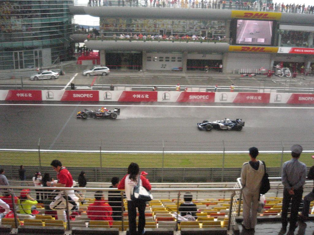 RedBull & Williams, China 2006